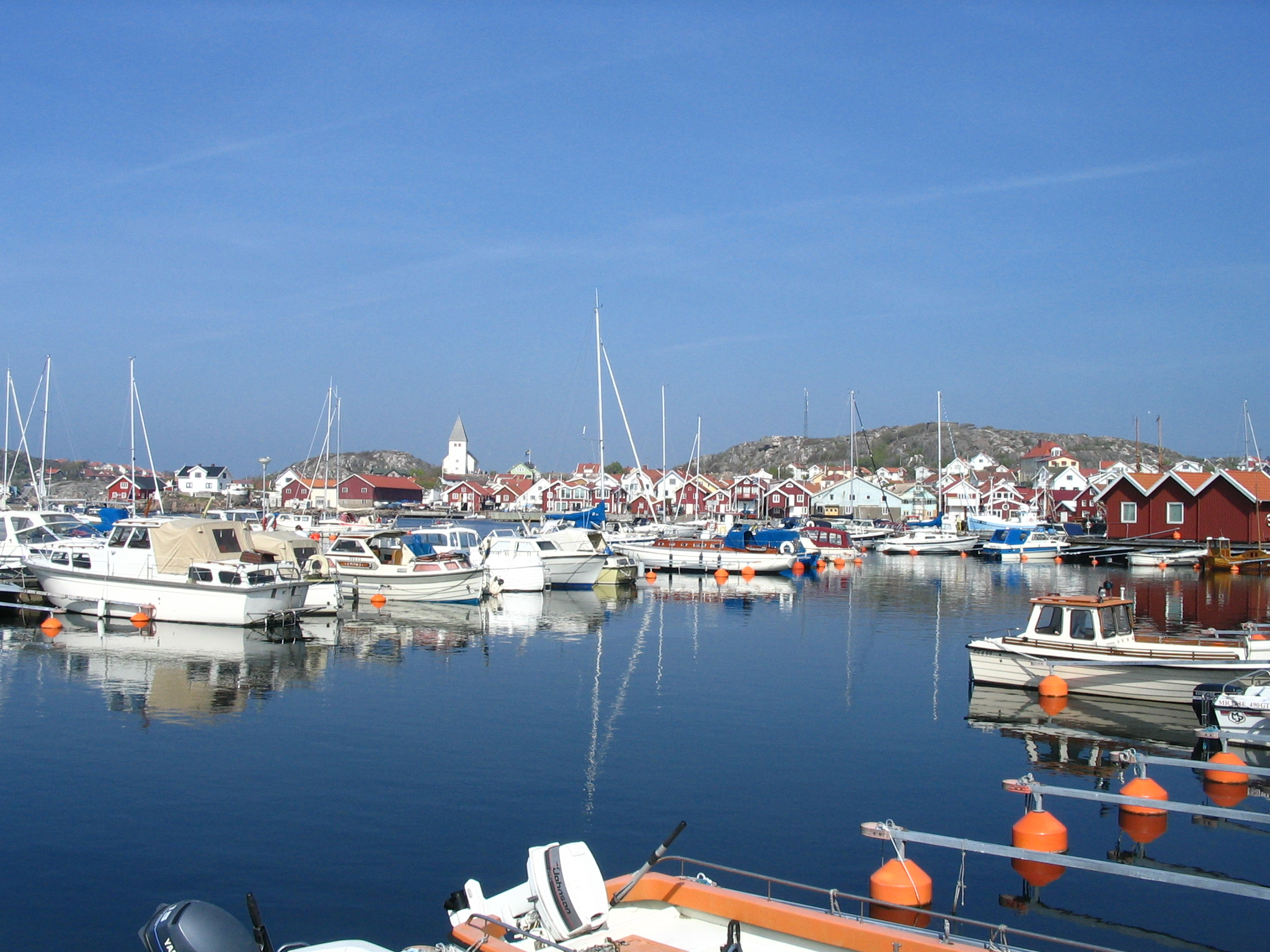 Skärhamn on the isle of Tjörn, Sweden